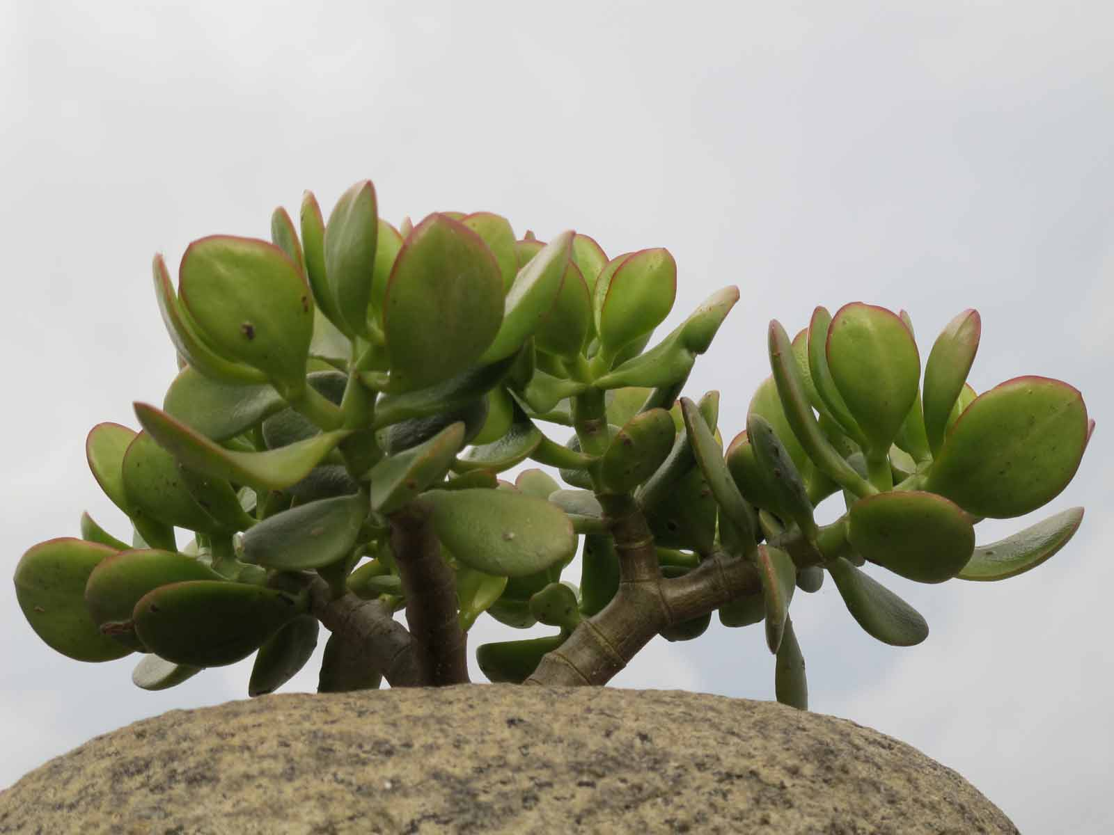 Crassula ovata at Antananarivo, Madagascar